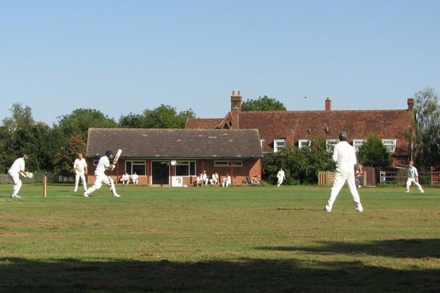 Cricket at Chrishall Hitting a six on a perfect end-of season Sunday afternoon.